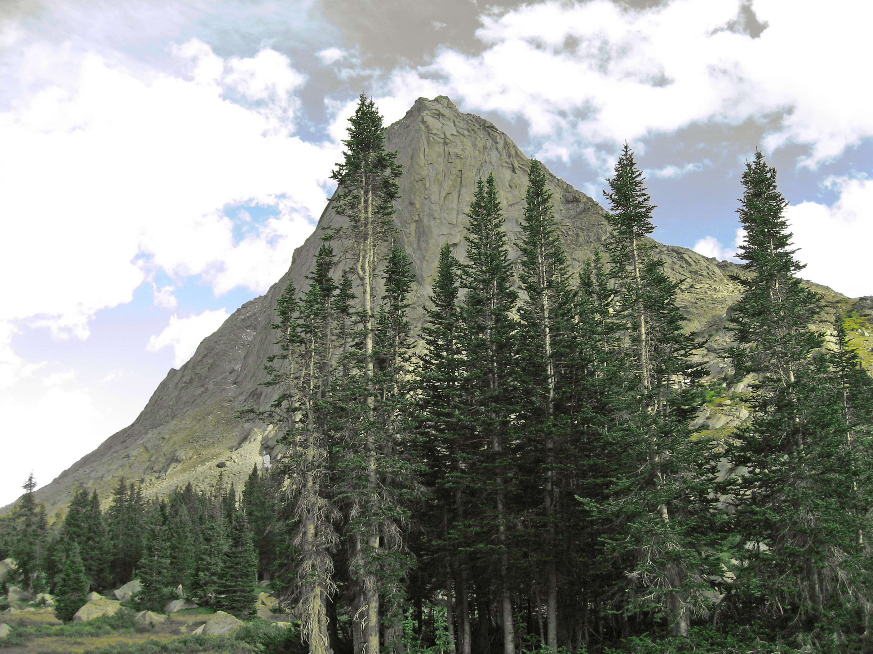 Lizard Head Peak, with Rocky Mts Subalpine Firs Abies lasiocarpa subsp. bifolia in foreground